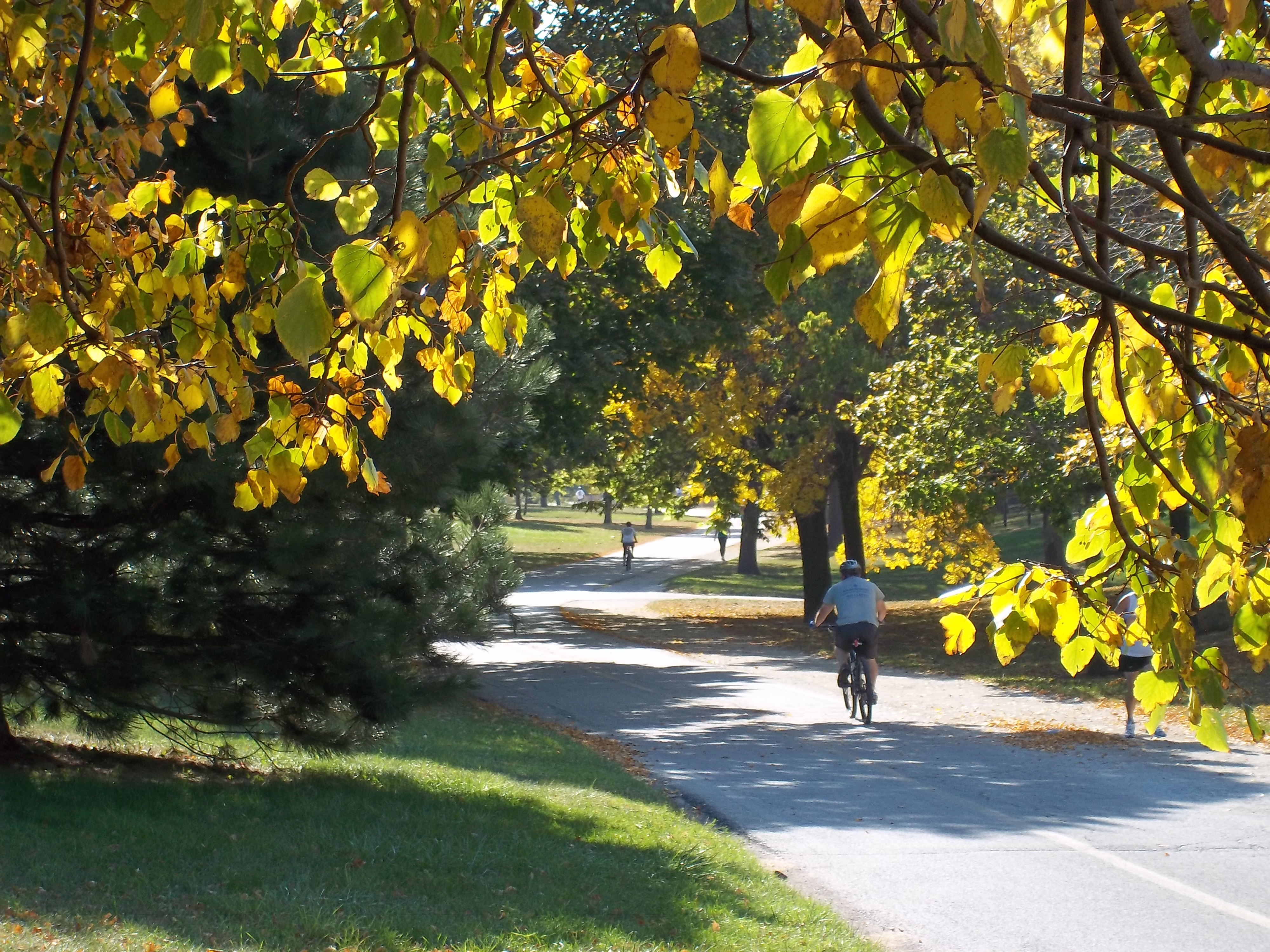 Chicago Lake front bike trail